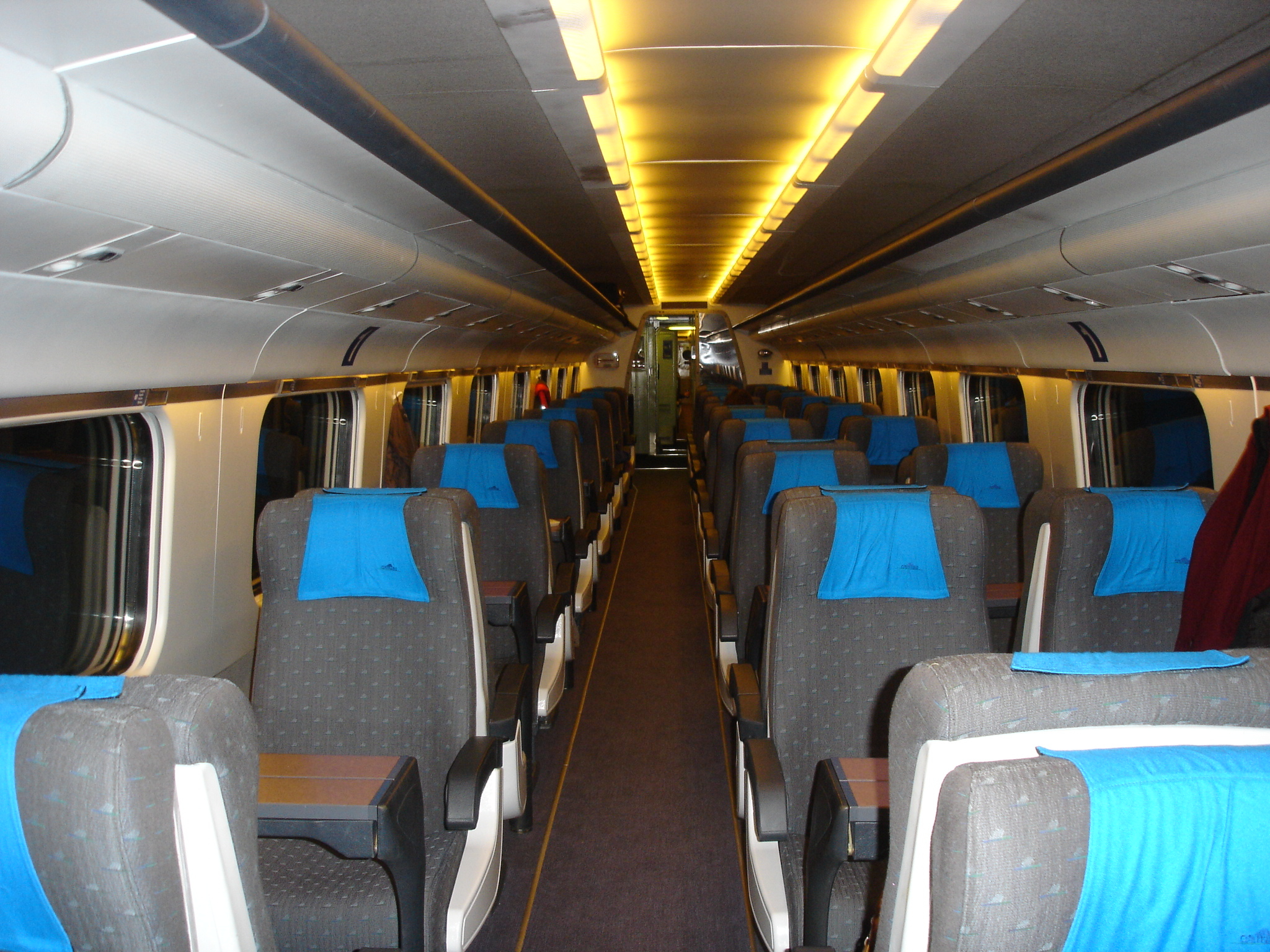 1st class interior of a Cisalpino ETR 470.